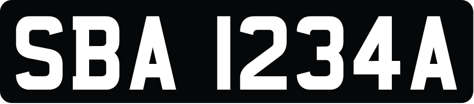 An old-style Singapore white-on-black vehicle registration plate.